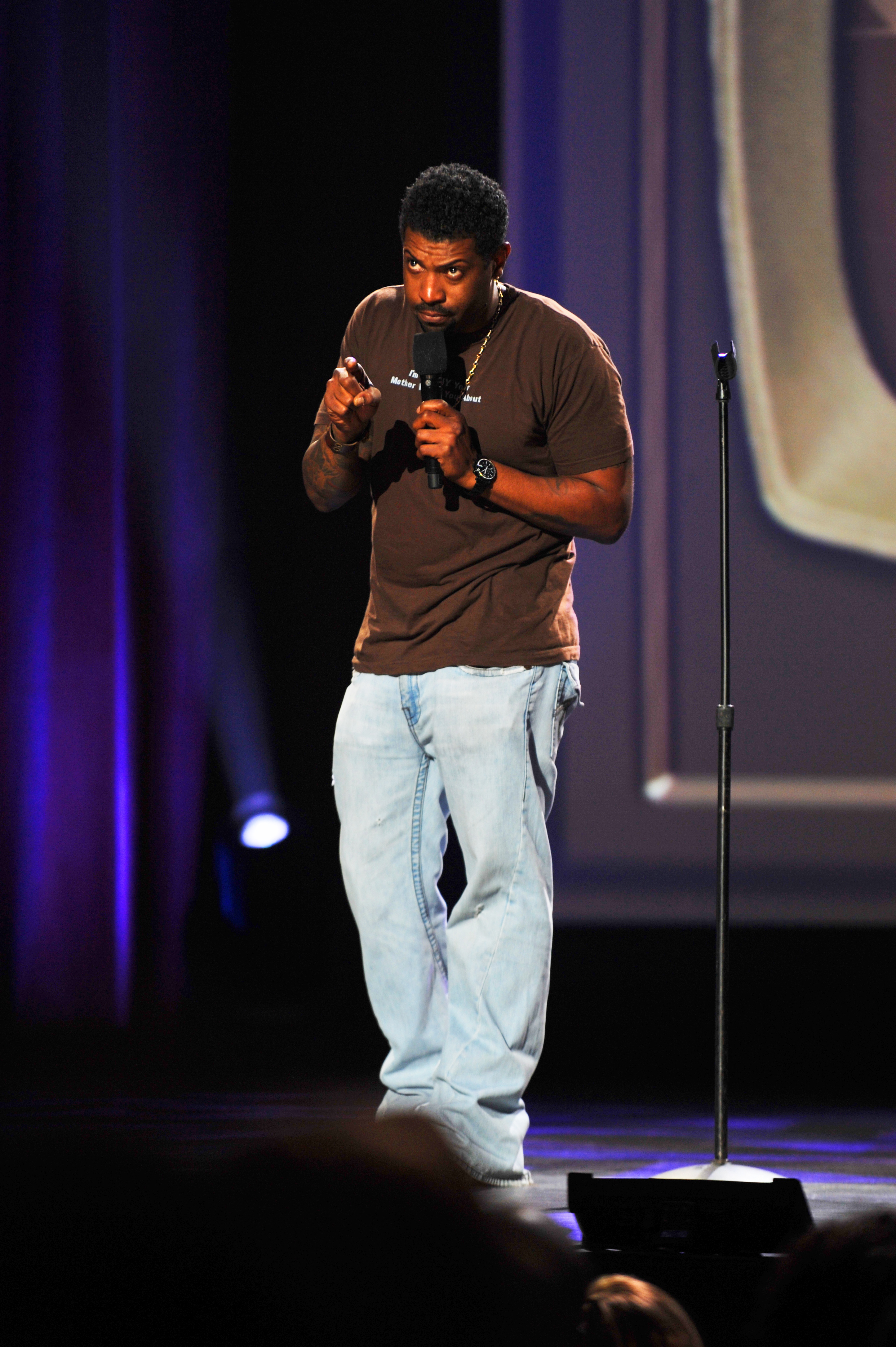 The Chocolate Sundaes Comedy Show